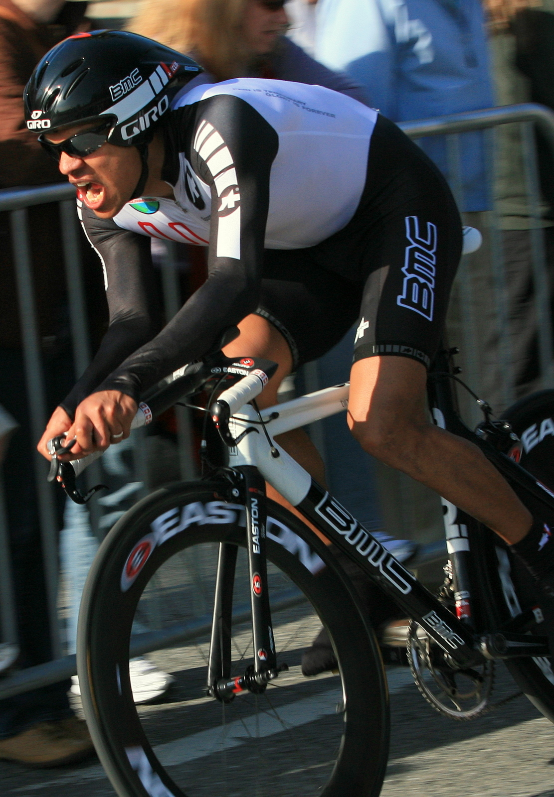 Tony Cruz at the Prologue of the Tour of California in Palo Alto